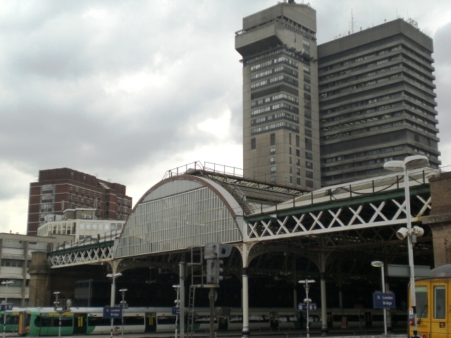 Guy's Hospital tower from London Bridge Railway Station